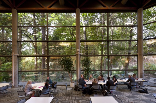 Inside the Lewis & Clark student research center.